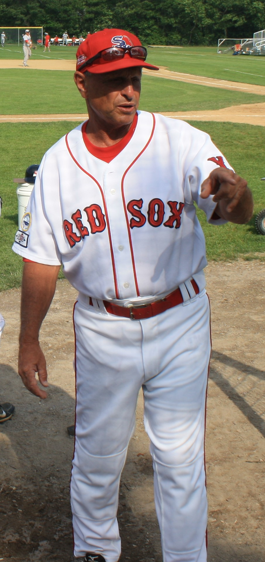 Scott Pickler, Manager of the Yarmouth-Dennis Red Sox, 2011